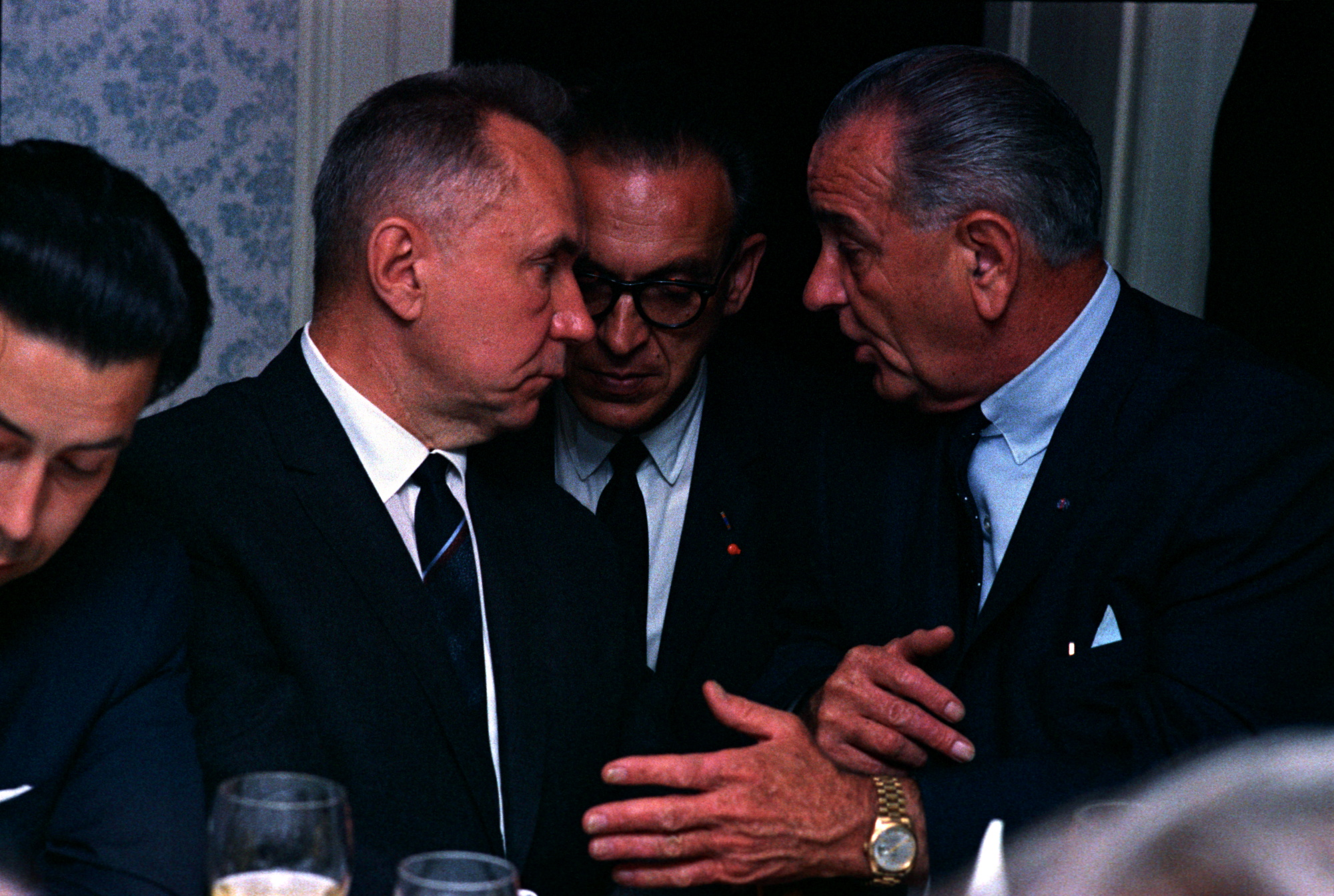 Sovjet Premier (l) and President of the United States Lyndon B. Johnson during the 1967 summit of Glassboro